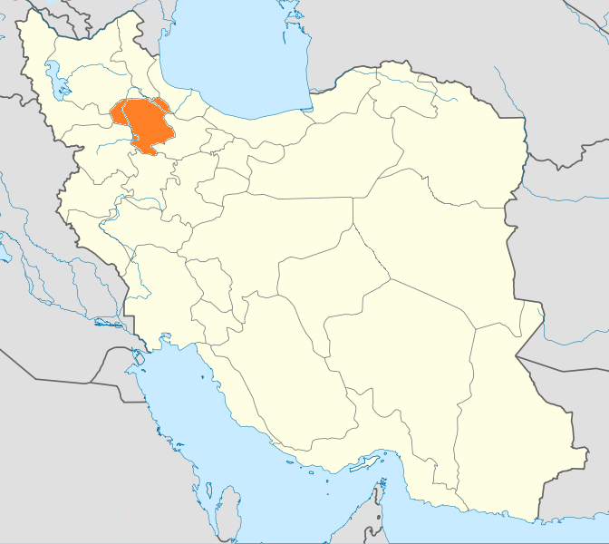 Locator map of Iran